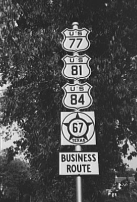 A sign pole containing signs for business routes U.S. Route 77, U.S. Route 81, U.S. Route 84 and Texas SH 67 in Waco, Texas.